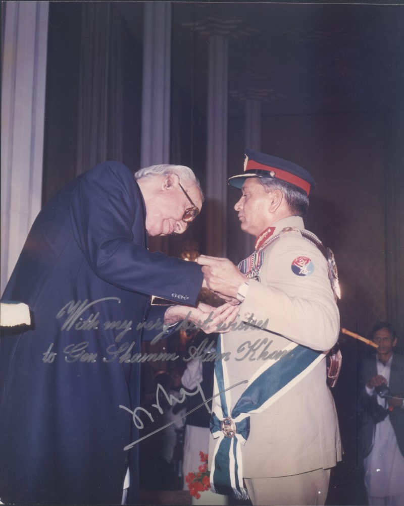 General Shamim Alam Khan receiving the Nishan-e-Imtiaz from President Ghulam Ishaque Khan.